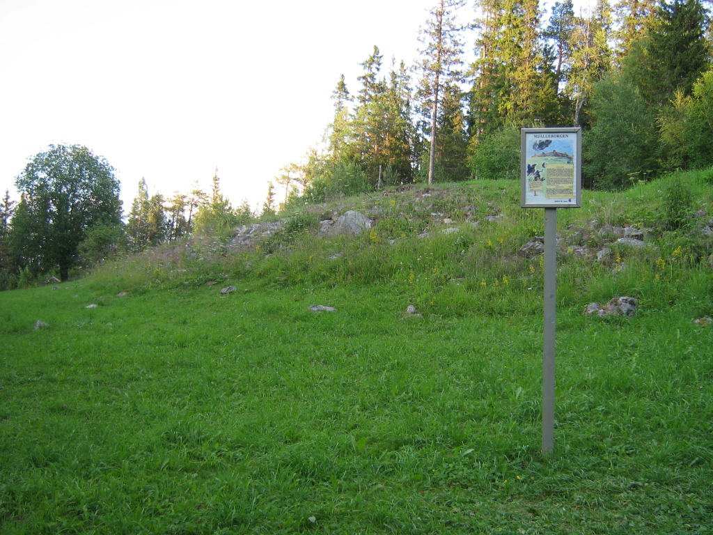 The remains of Mjälleborgen, Frösön, Sweden.